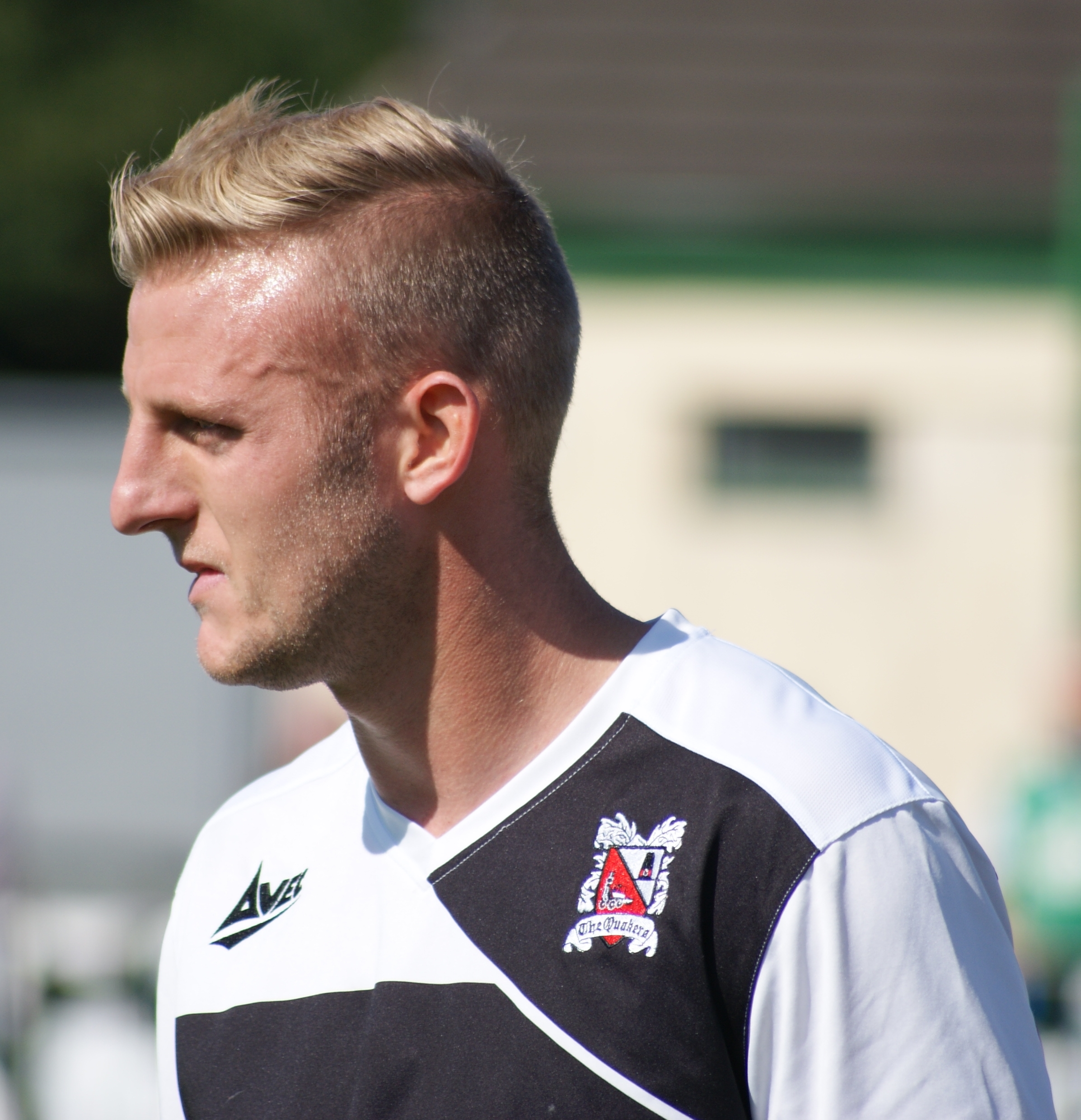 David Dowson playing for Darlington 1883 against Burscough at Victoria Park, Burscough on 23 August 2014